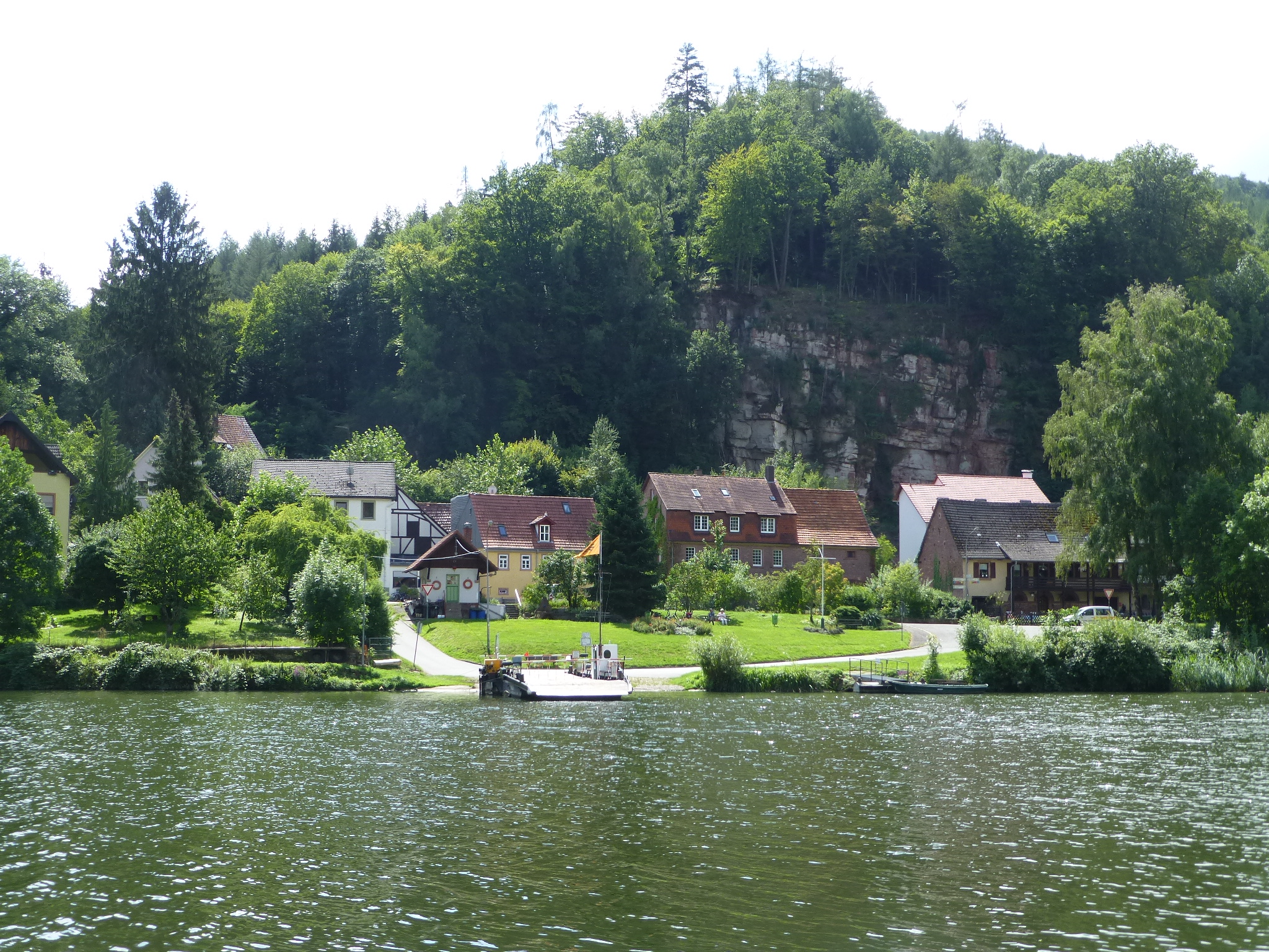 Ferry on the Neckar between Hirschhorn and Neckarsteinach, east of Heidelberg.